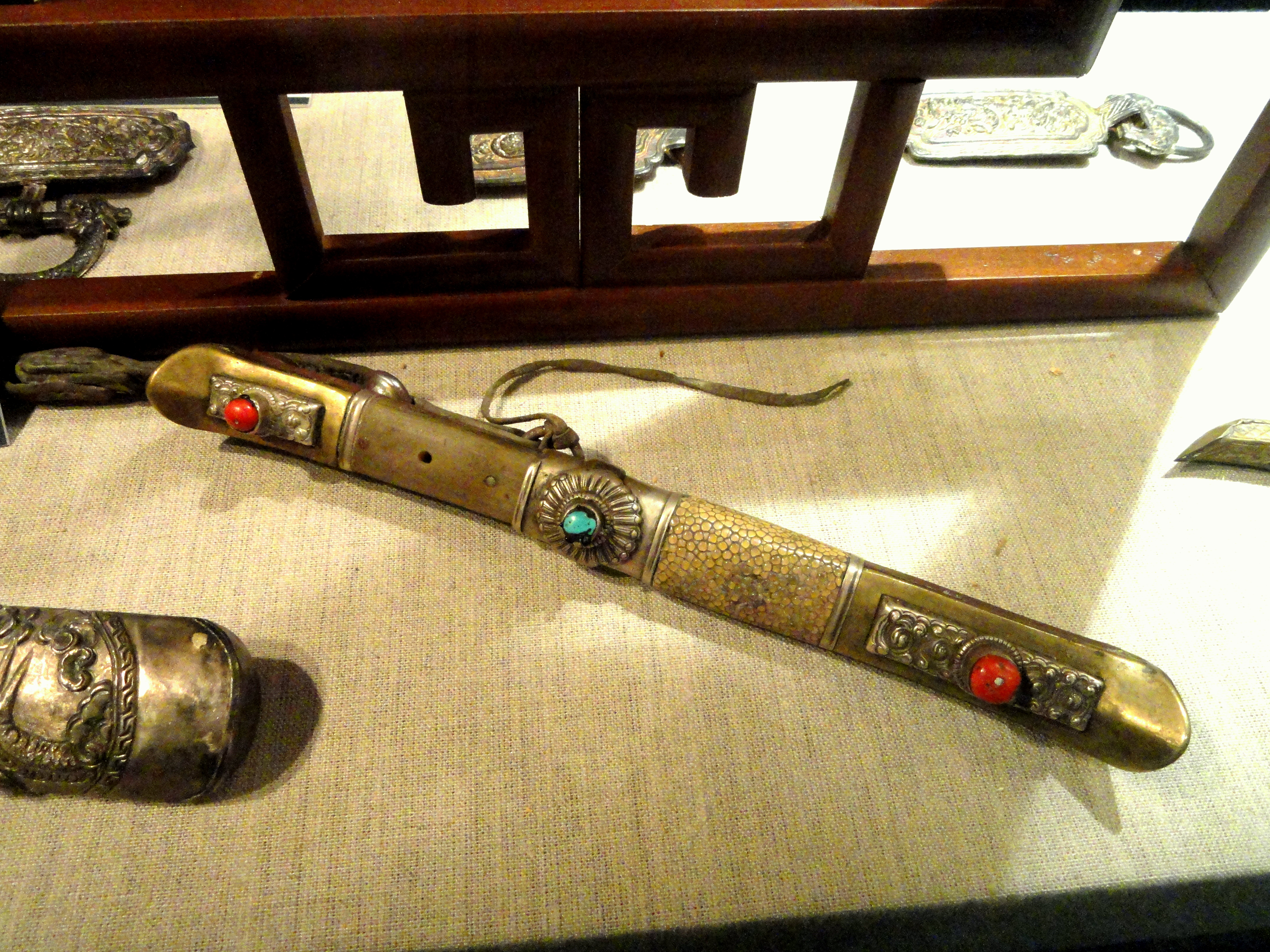 Tibetan knife. Jewelry in the Yunnan Nationalities Museum, Kunming, Yunnan, China.